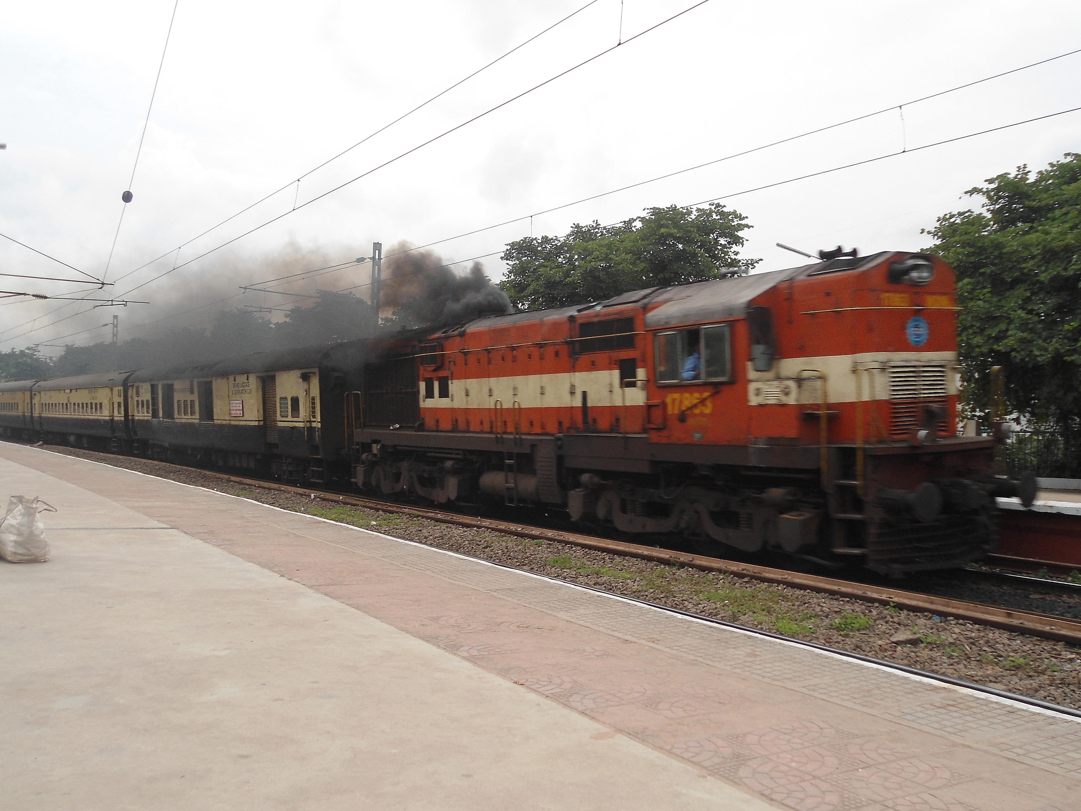 12025 (Pune-SC) Shatabdi Express with WDM-3A loco crossing Bharathnagar MMTS station, Hyderabad